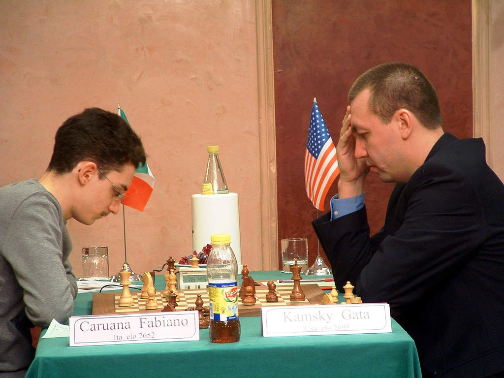 Photo og game Caruana-kamsky at 52nd Reggio Emilia tournament